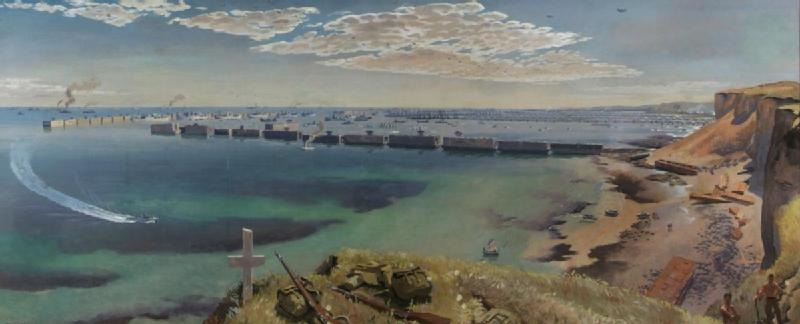 Mulberry Harbour image: A view from the top of a cliff on the Normandy coast of the Mulberry harbour at Arromanches. Numerous large concrete caissons form a roughly circular harbour within which are a number of ships. In the foreground on the cliff top are two rifles, bits of military equipment and a single grave marked by a white cross. Two shirtless men stand in the bottom right corner, overlooking a thin beach at the foot of the cliffs.